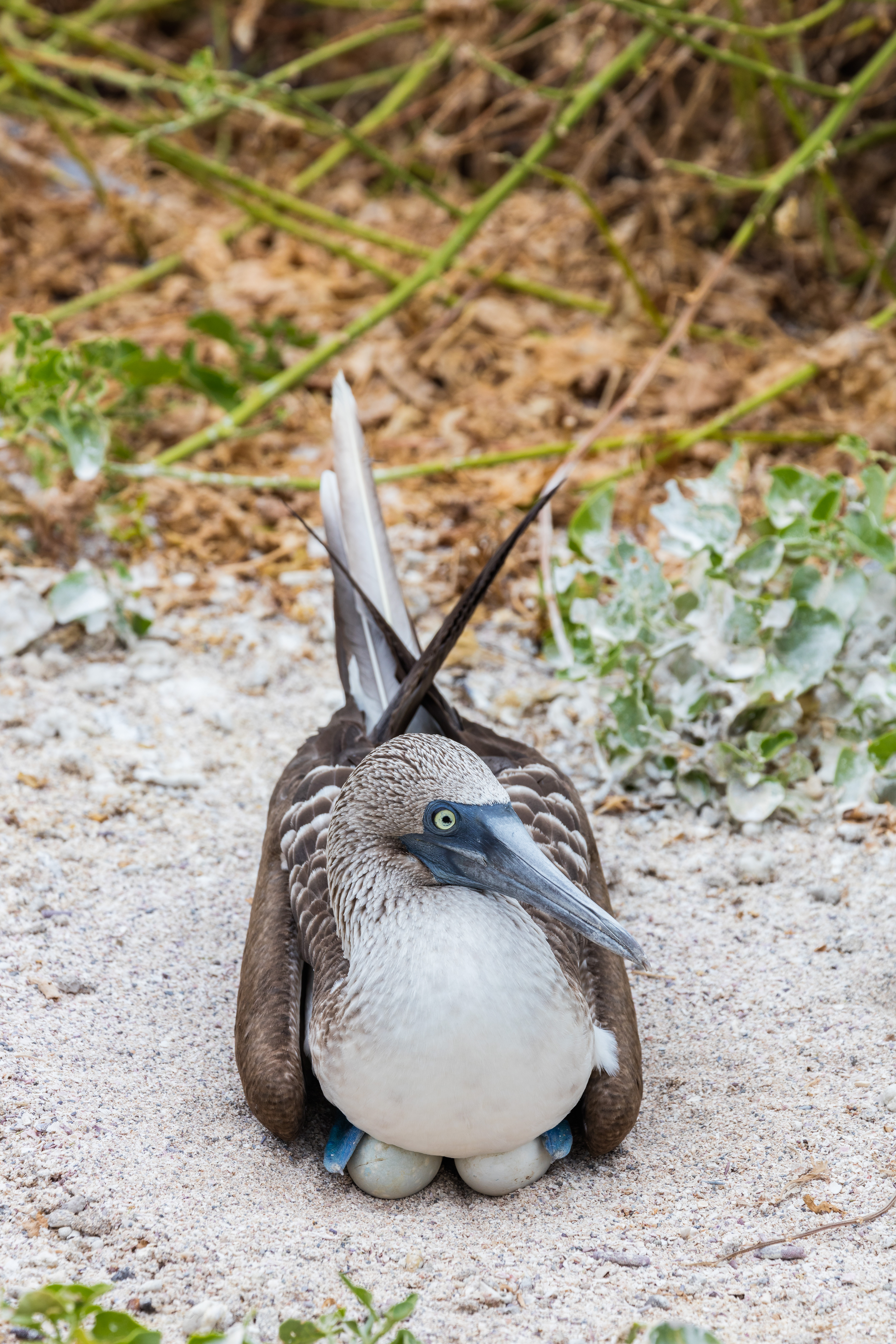 Blue-footed booby (Sula nebouxii), Lobos Island, Galapagos Islands, Ecuador